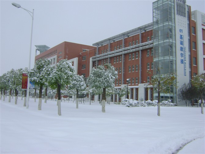 Zhengzhou Institute of Aeronautical Industry Management,located in Zhengzhou City, Henan Province.